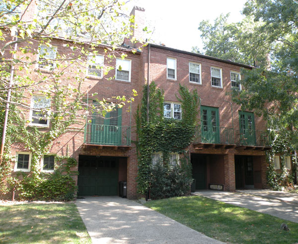 Picture of the back of townhouses in Chatham Village, in the Mount Washington neighborhood of Pittsburgh, Pennsylvania, on September 18, 2010. Built from 1932 to 1935. Stein & Wright, planners. Ingham & Boyd, architects. Ralph E. Griswold, landscape architect. Architectural style: Georgian Colonial Revival. As well as being a National Historic Landmark, Chatham Village is on the National Register of Historic Places and the List of Pittsburgh History and Landmarks Foundation Historic Landmarks. "In 1932, on 46 acres of land, the Buhl Foundation began building this legacy of Henry Buhl, Jr., who left $15 million 'to help benefit the people of the city.' The foundation bought the Thomas Bigham house, and hired two New York City planners, Clarence Stein and Henry Wright, to design the village, which was completed in 1936."[1] A sign on a brick wall near the intersection of Bigham Road and Pennridge Road says the following: "Chatham Village has been designated a National Historic Landmark - This site possess national significance in commemorating the history of the United States of America - A model planned community with rowhouses, garden courts, greenbelt, and recreation facilities opened through the Buhl Foundation to promote social reforms and housing improvements for middle income families. This influenced the development of 20th century urban planning in the United States. 2005 - National Park Service - United States Department of the Interior".